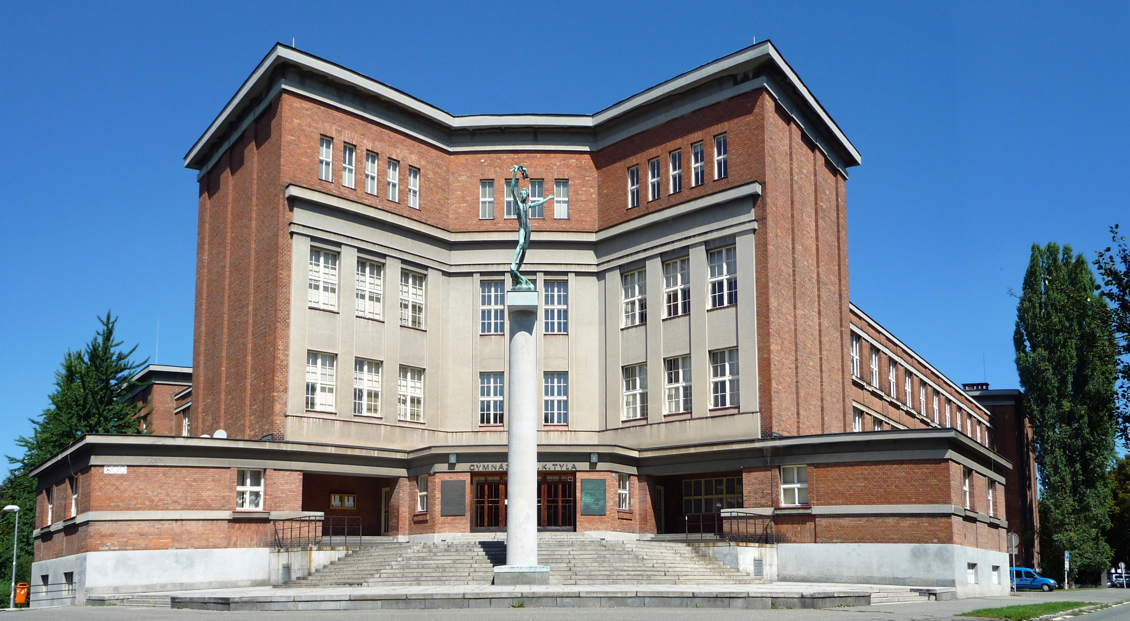 The J. K. Tyl grammar school in Hradec Králové (Hradec Králové Region, Czechia).